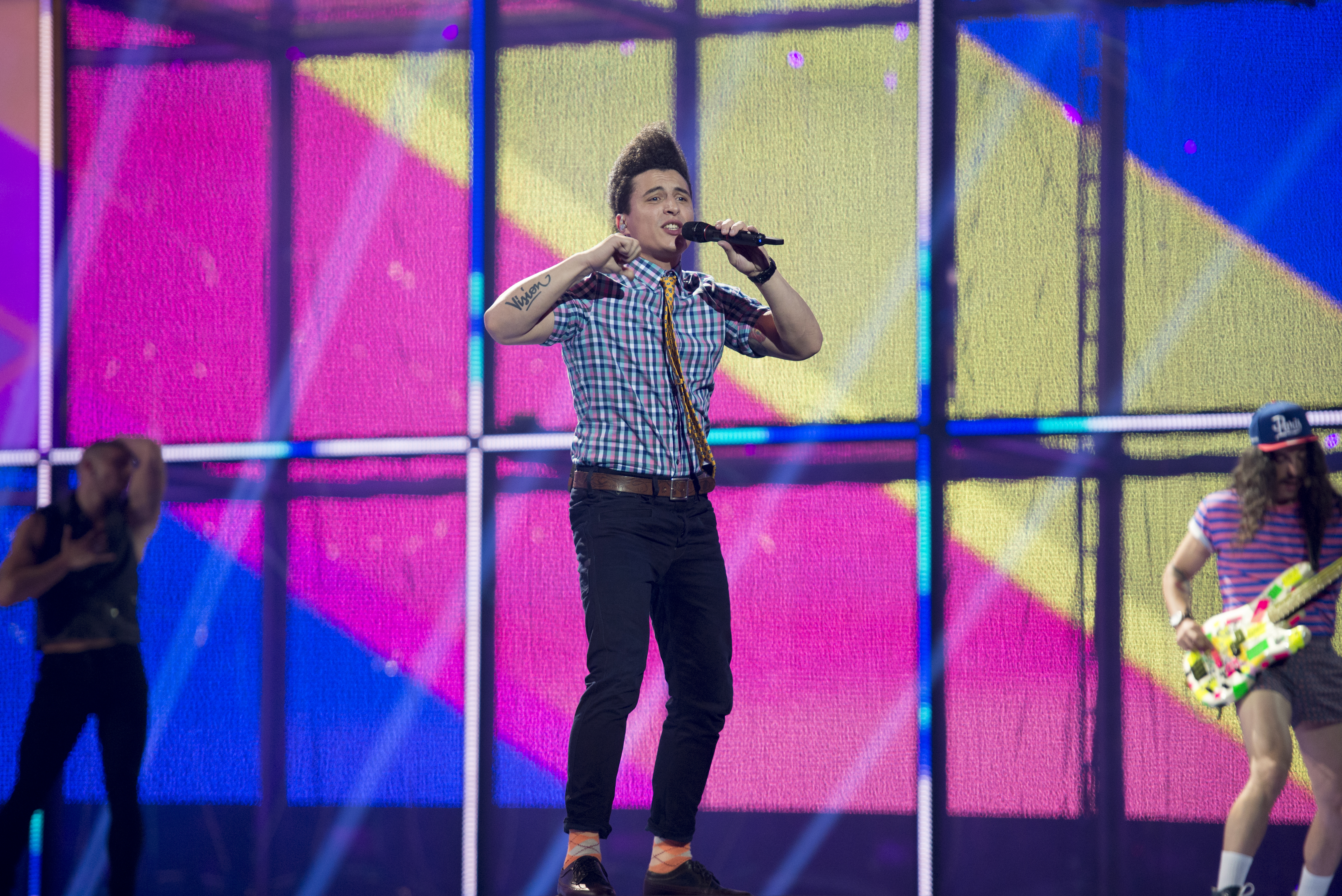 Twin Twin representing France with the song "Moustache" during the first dress rehearsal of the final of the Eurovision Song Contest 2014 Copenhagen. (Help translate this text)